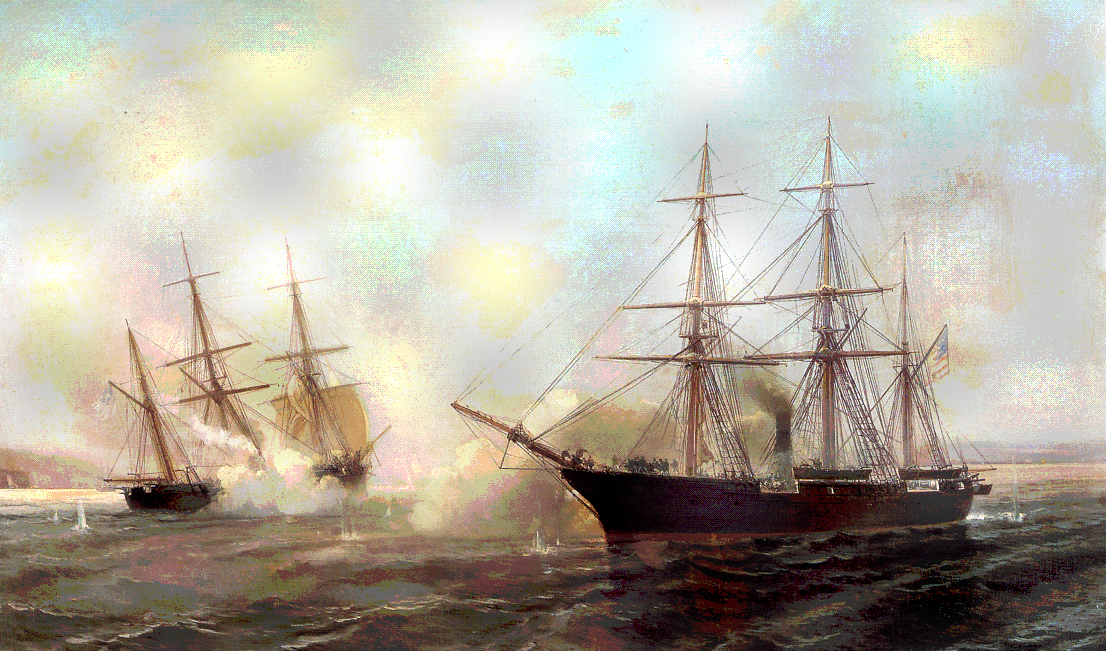 USS Kearsarge (in foreground) sinks sloop of war raider CSS Alabama outside the French port of Cherbourg, 1864. Durand-Brager’s depiction, 1864.